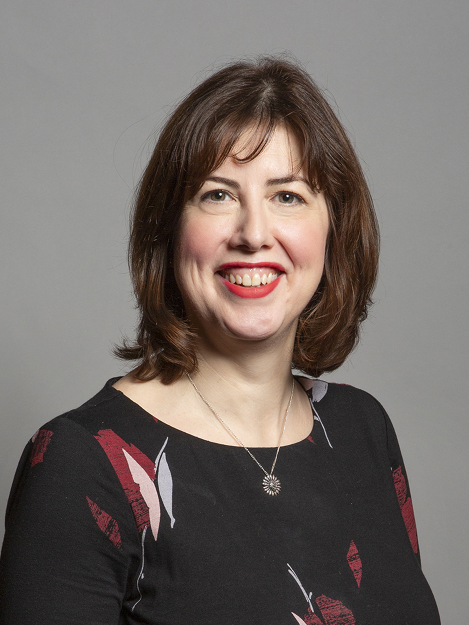 Official portrait of Lucy Powell MP 3×4 portrait of Lucy Powell